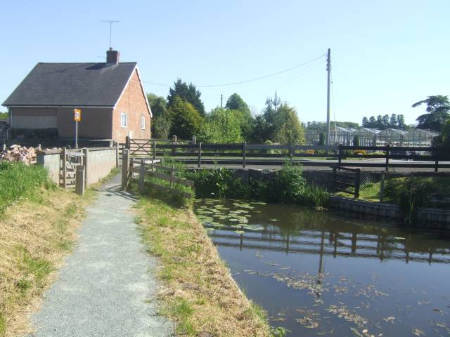 Montgomery Canal - Bridge 129 - Refail. Another lowered bridge on the canal that will need replacement if the canal is to be brought back into use.